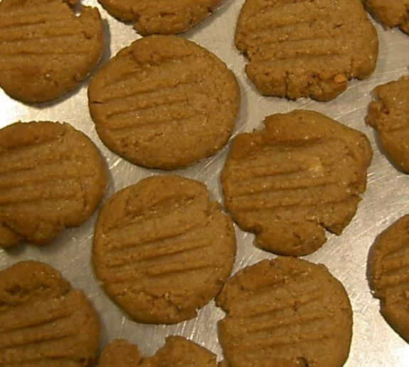 Peanut butter cookies, cooked and on the baking sheet